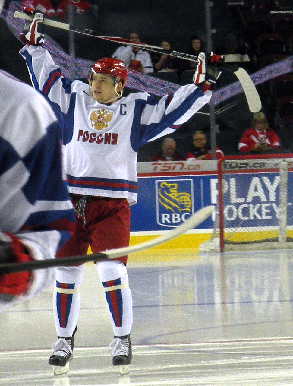 Russian forward Yevgeni Kuznetsov prior to a 2012 World Junior Hockey Championship game against Sweden at Calgary, Alberta, Canada.